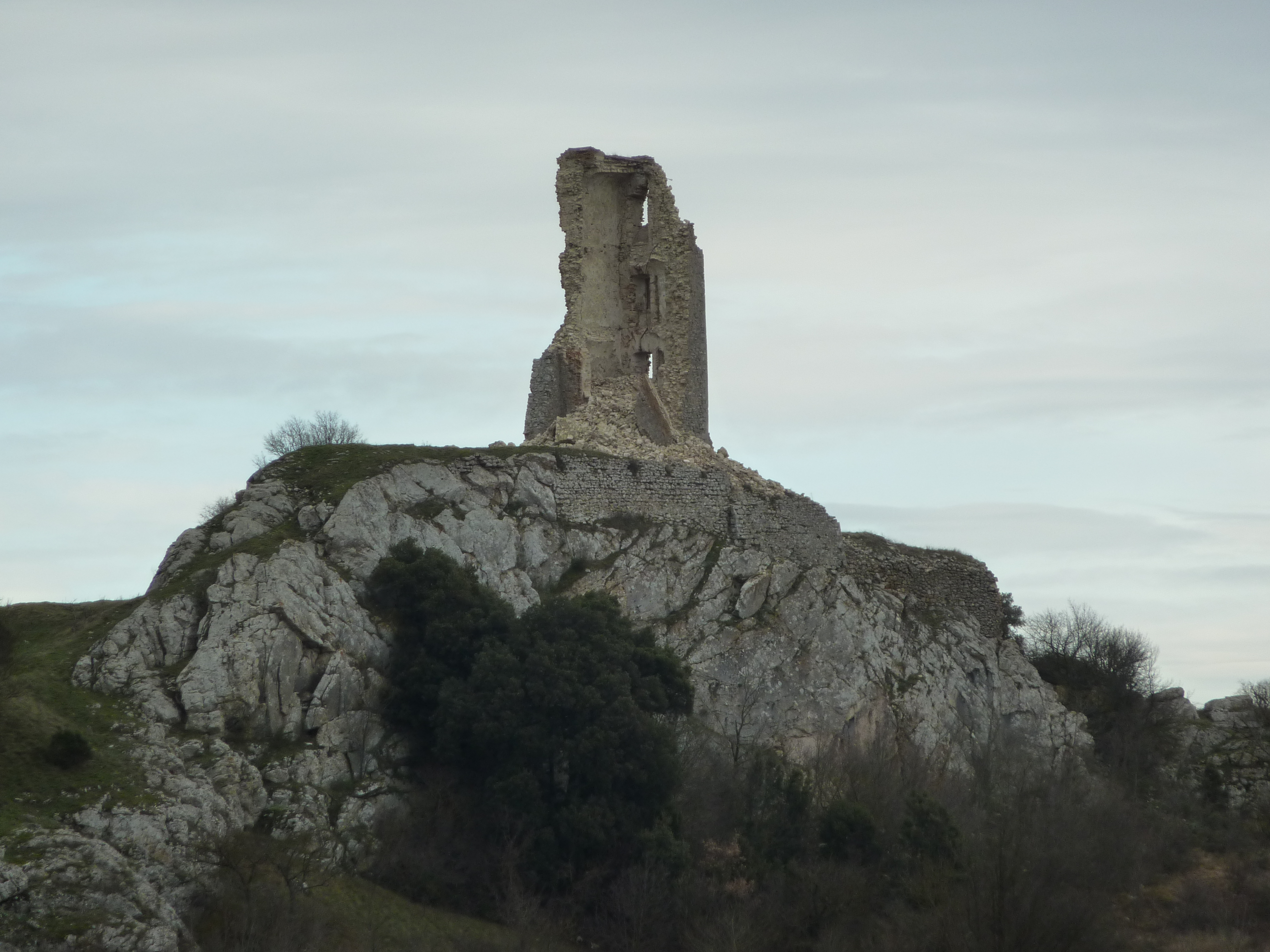 Forca di Penne, Pescara, Italy - Tower